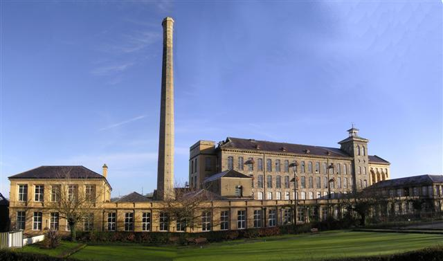 Herdman's Mill, Sion Mills, County Tyrone. It is being converted to small business units - more at